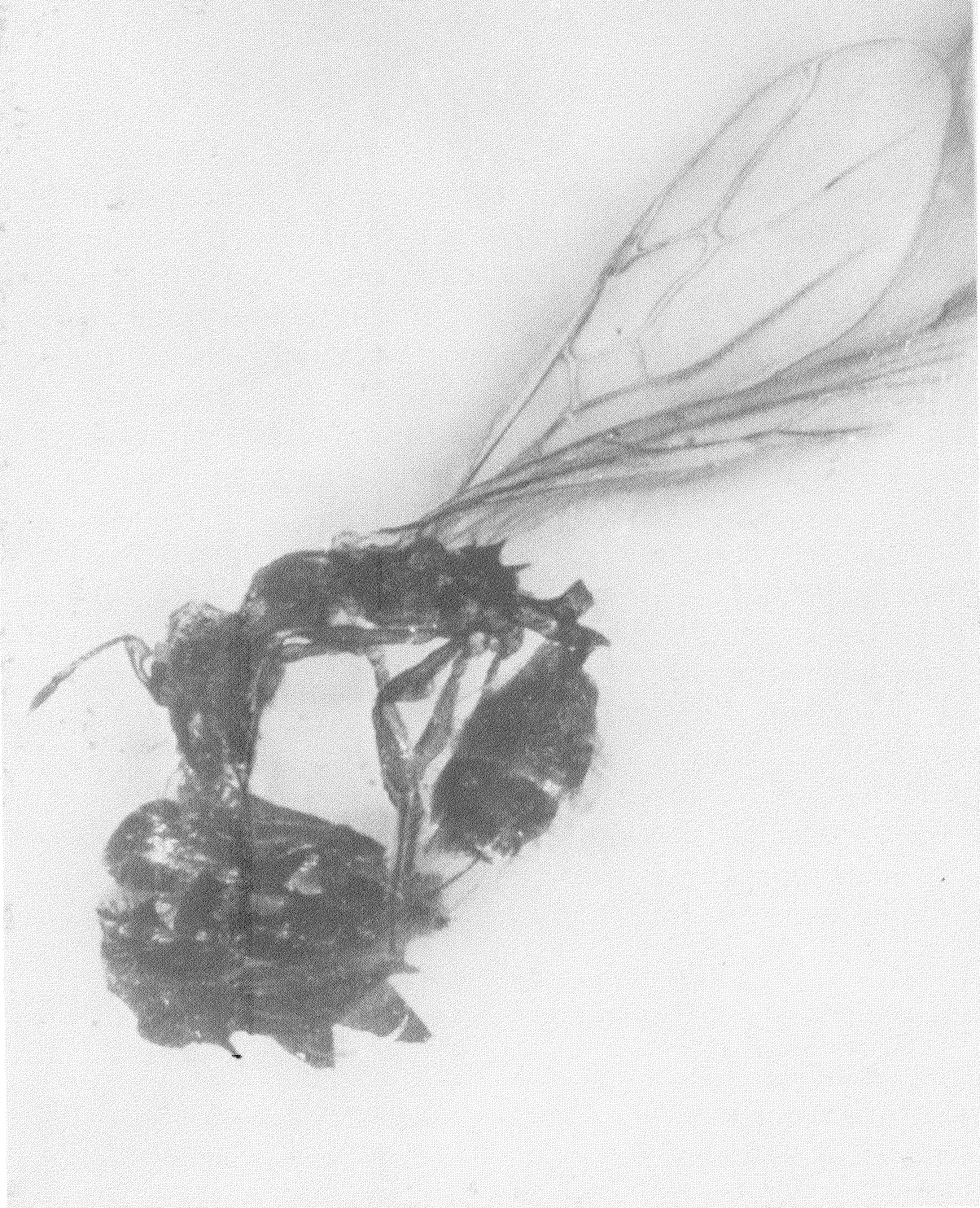 Hypopomyrmex Emery, 1891 type specimen